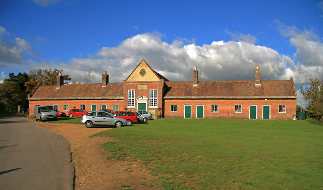 Pamphill School and Almshouses. Roger Gillingham's original school and almshouses which he endowed in 1698, have now been incorporated into the modern day Pamphill Church of England First School. The old free school is the central portion, with the adjoining alms houses forming east and west wings. Above the entrance door to the school is an inscribed stone plaque.600130